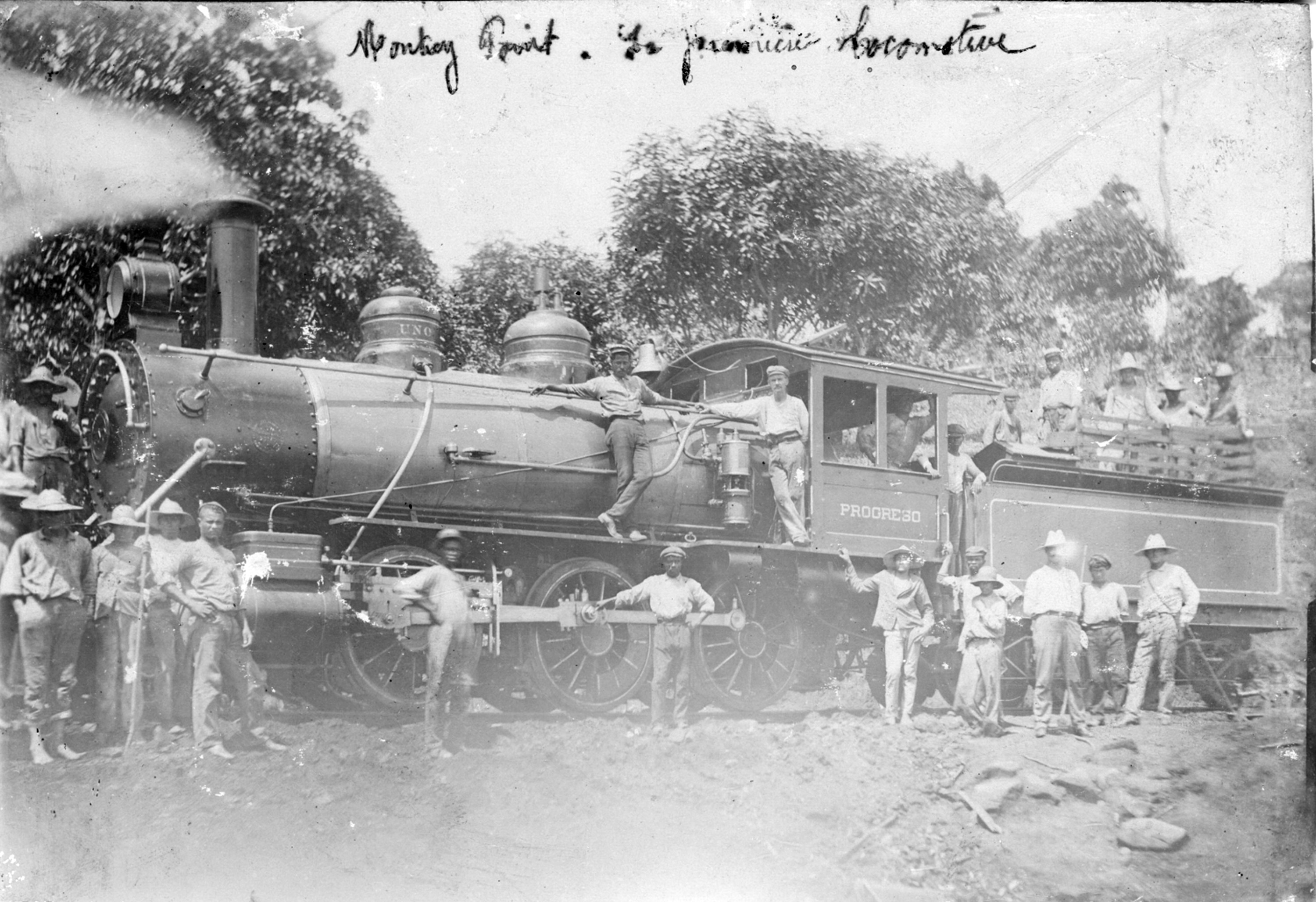 Construction of the 3ft 6in gauge line from the Caribbean coast at Monkey Point to Lake Nicaragua, 1909. It was never completed.